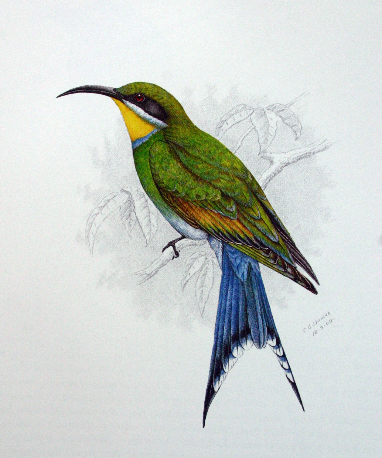 Swallow-tailed Bee-eater Merops hirundineus (adult female)